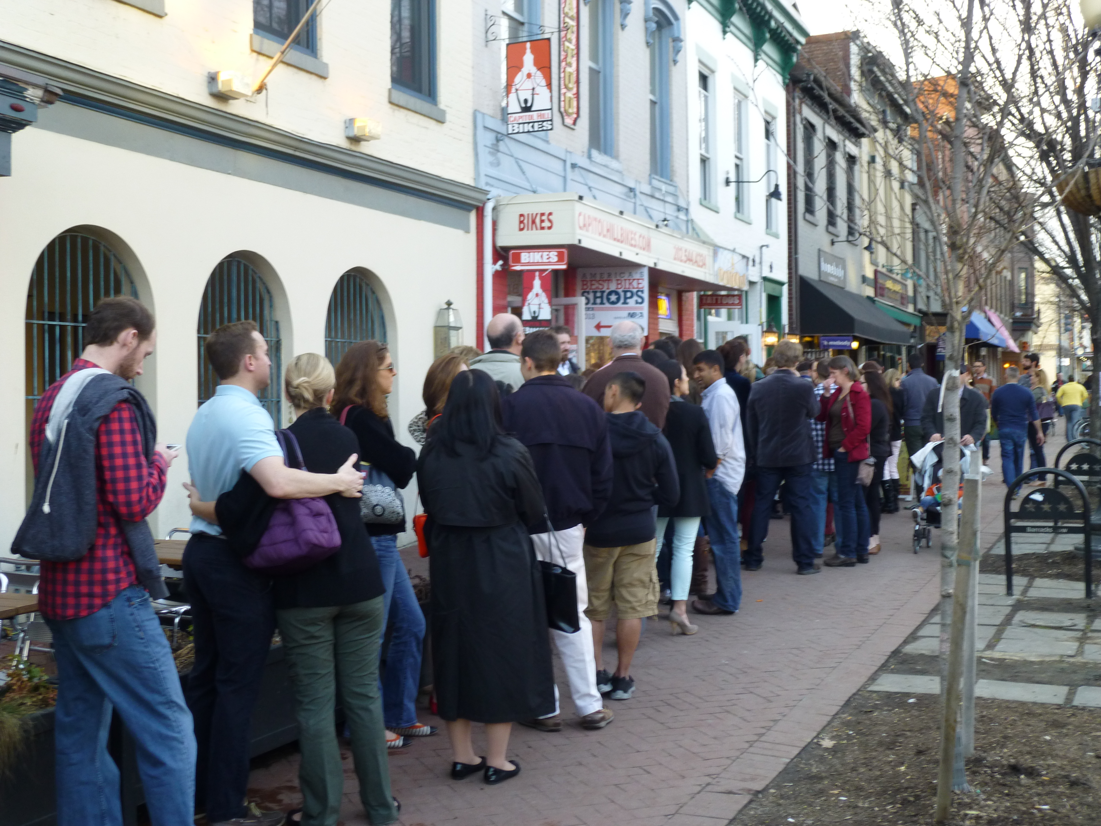 Mike Licht, Patrons lined up down the block. Rose's Luxury restaurant (717 8th Street SE) doesn't take reservations .